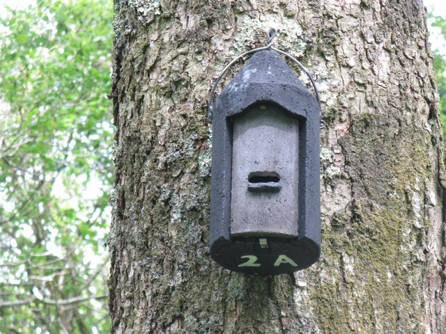 Woodcrete bat box at Carstramont Wood One of many placed in the wood by the Dumfries & Galloway Bat Group. Woodcrete is a mixture of sawdust, clay and concrete, produced by a German manufacturer. It is durable, does not warp or rot, and needs no maintenance. It also has excellent thermal properties, a great advantage for the construction of nest boxes, as they stay cool in summer and provide cosy roosts in winter.